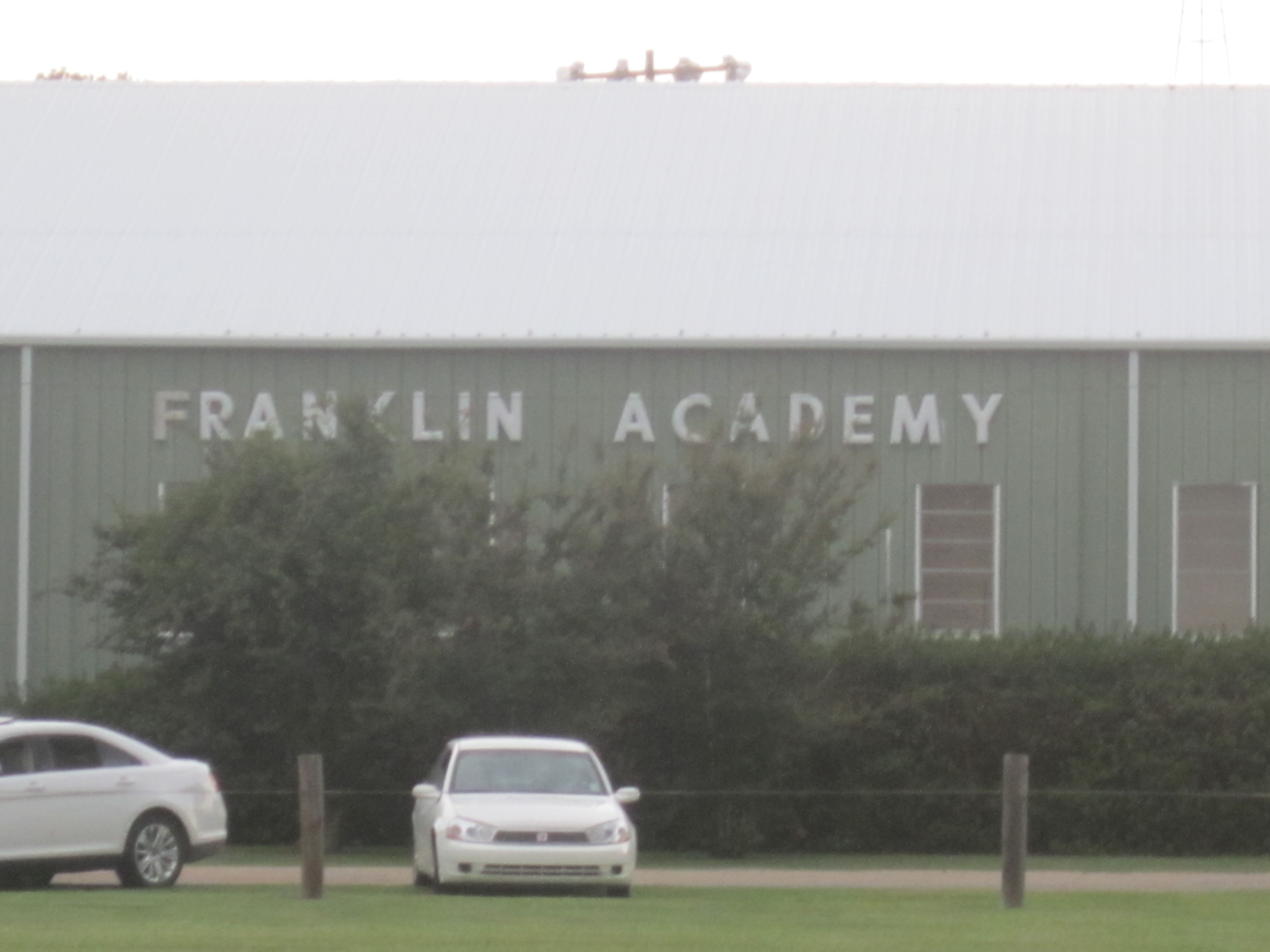 I took photo with Canon camera in Winnsboro, LA.